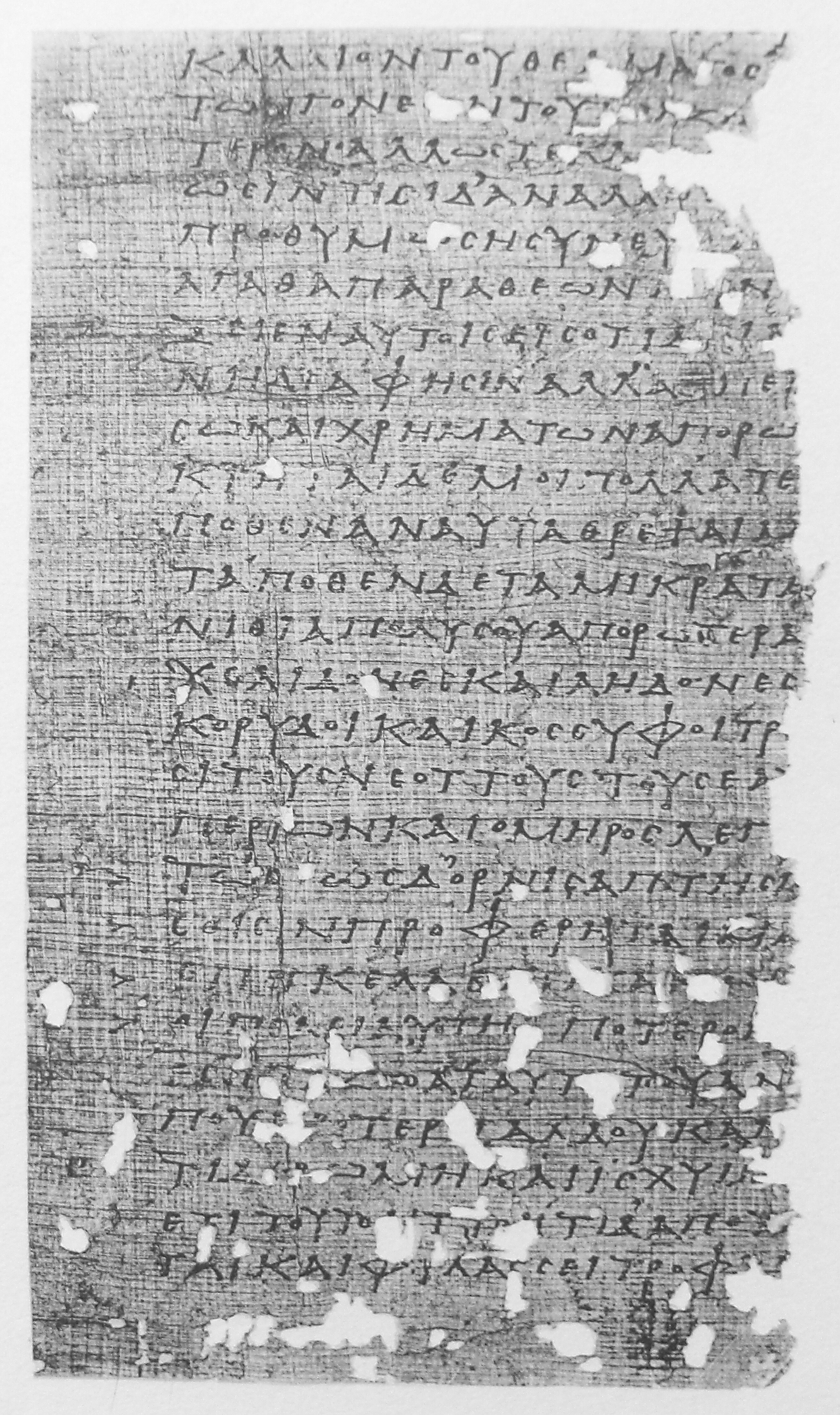 Papyrus fragment P.Harr. I 1, Col. 2, Z. 25–50; showing a section of Diatribe 15 of Gaius Musonius Rufus.